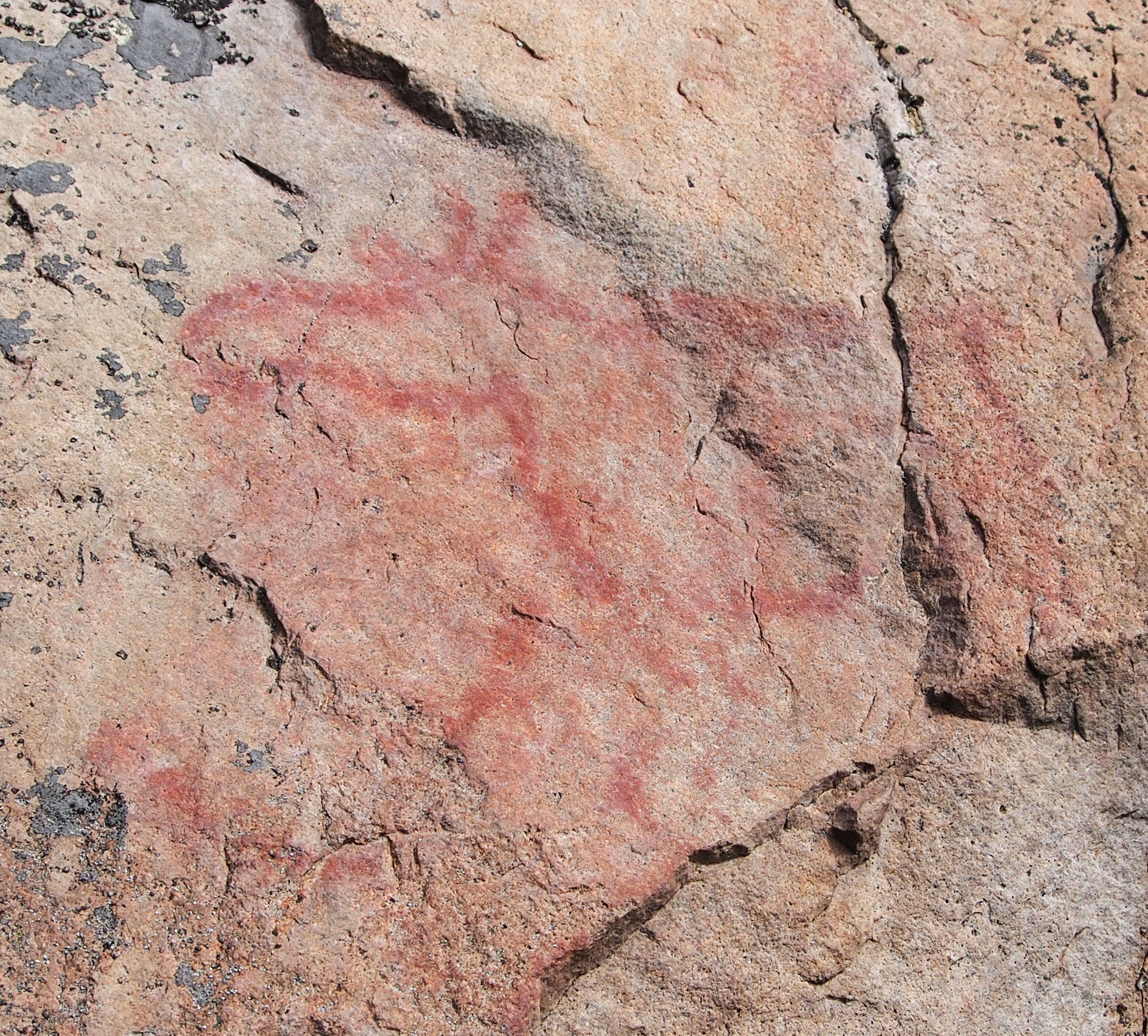 Rock painting in Saraakallio, Laukaa.